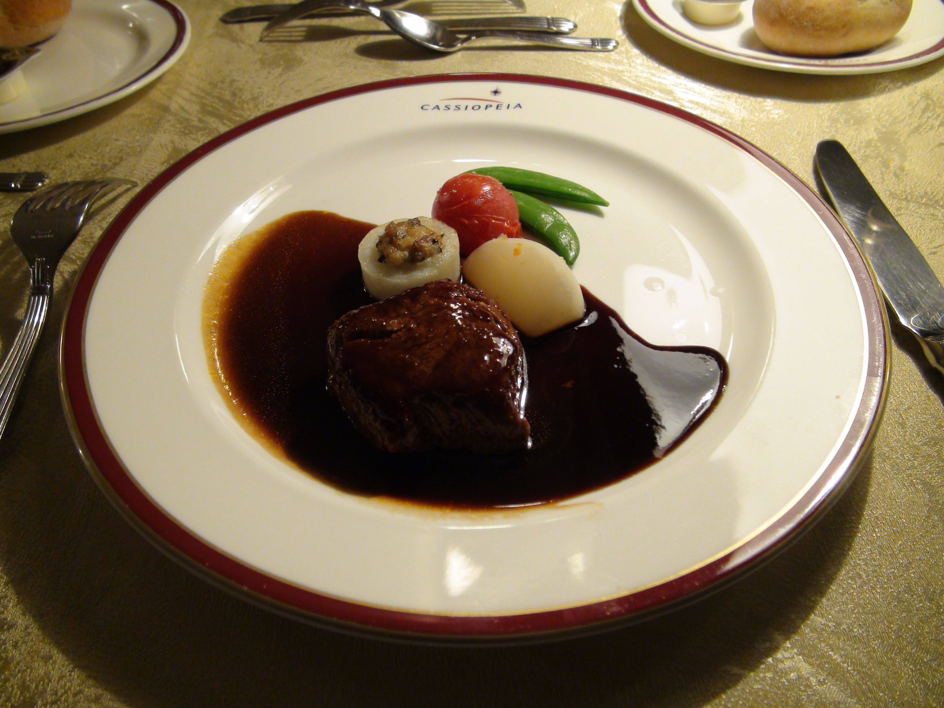 Cassiopeia train French cuisine meat dish